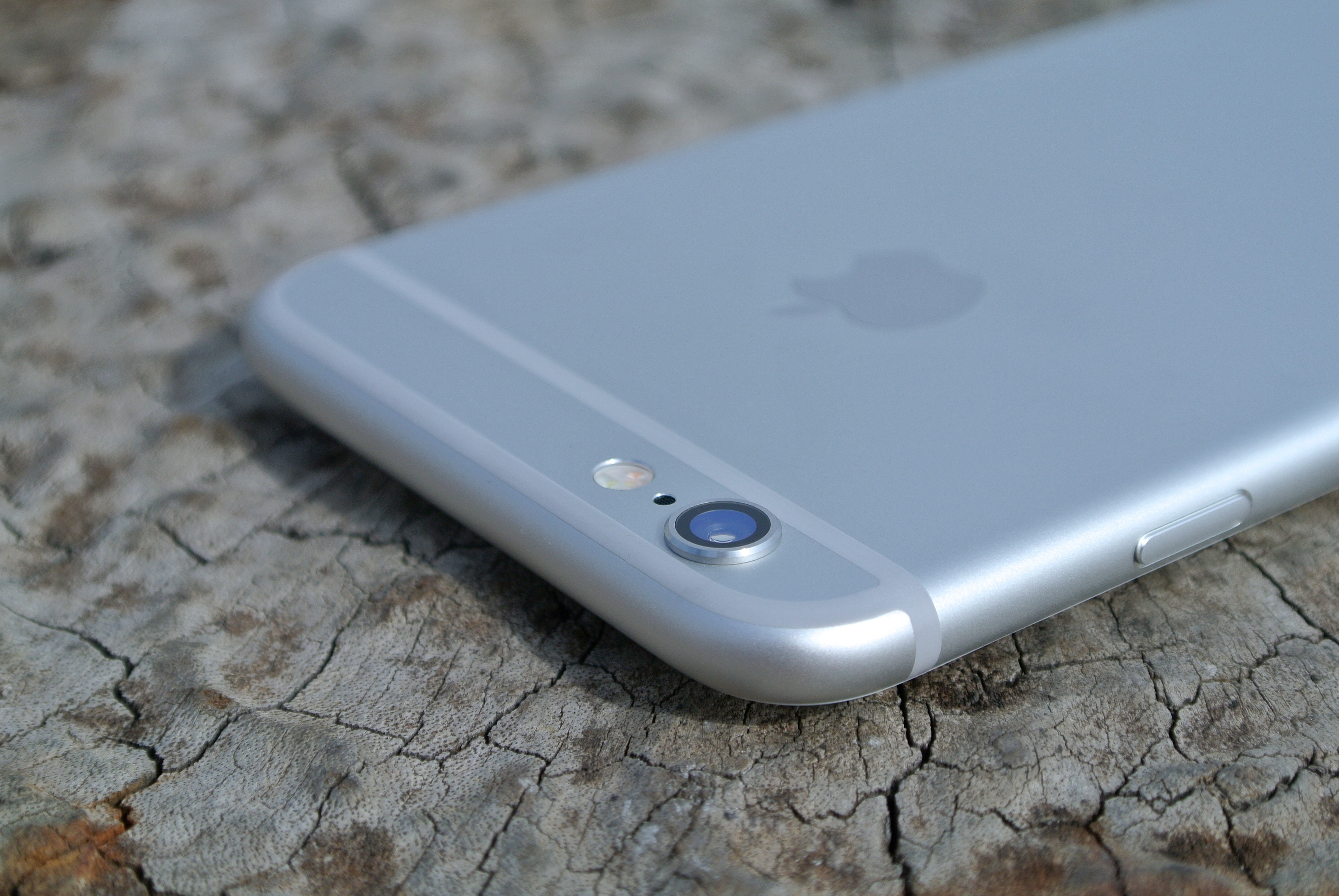 Photo of a silver Apple iPhone 6